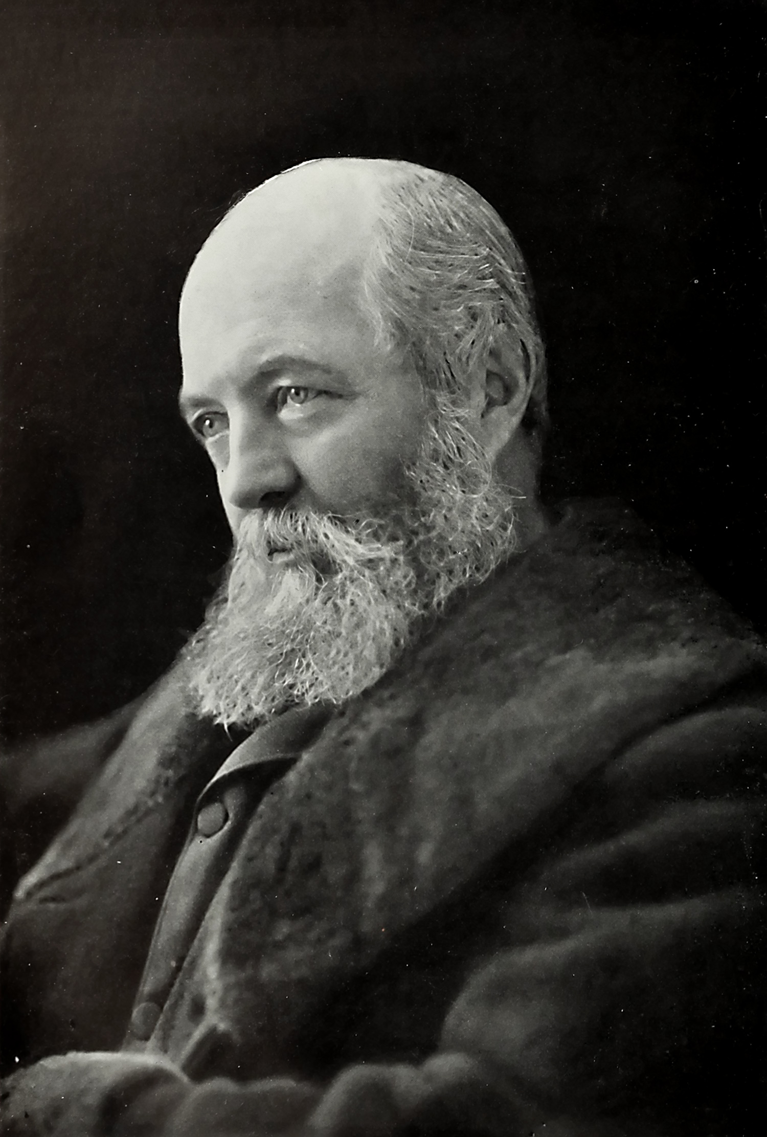 Portrait of Frederick Law Olmsted